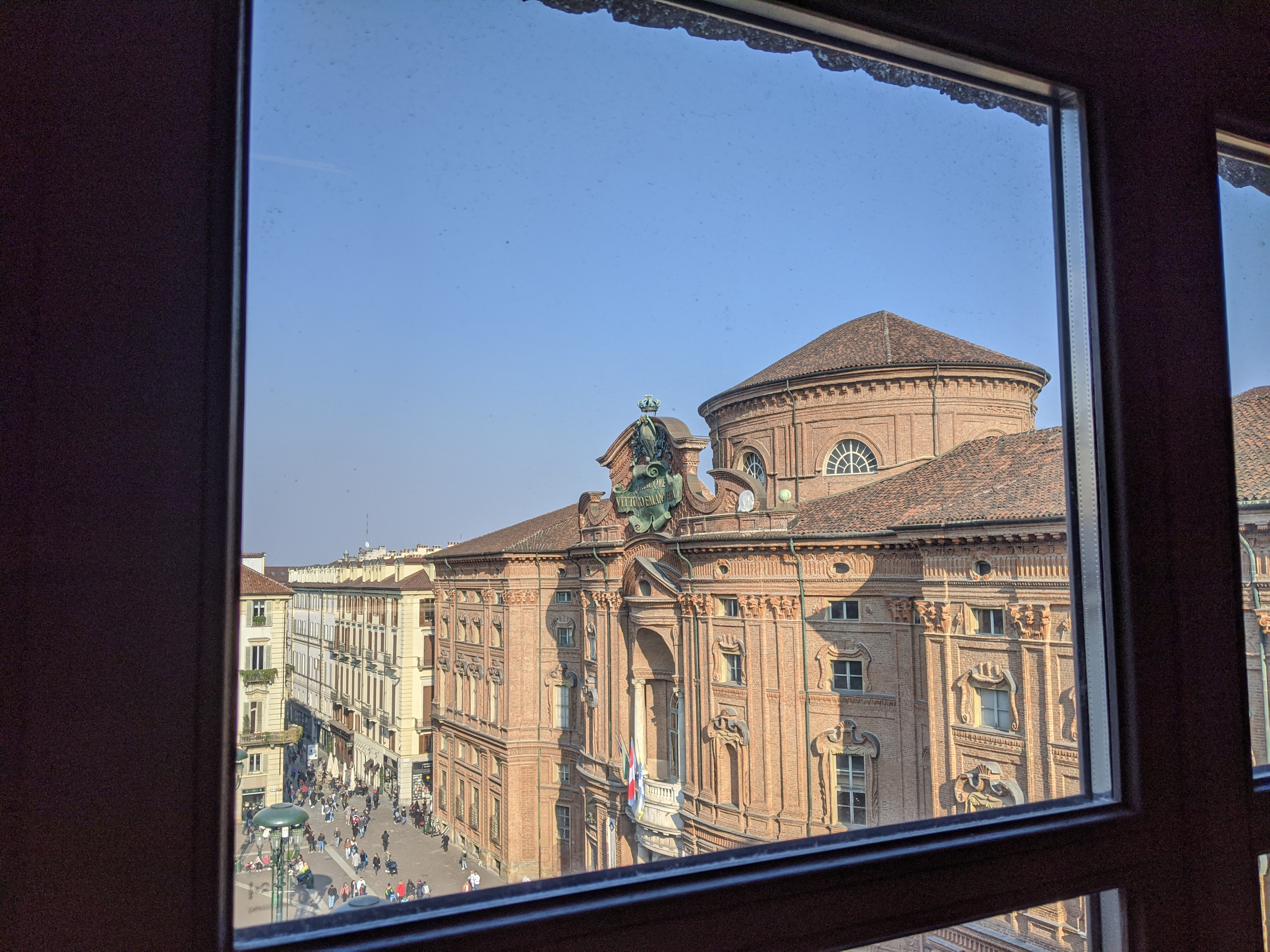 View on Palazzo Carignano from the Egyptian Museum (Turin)